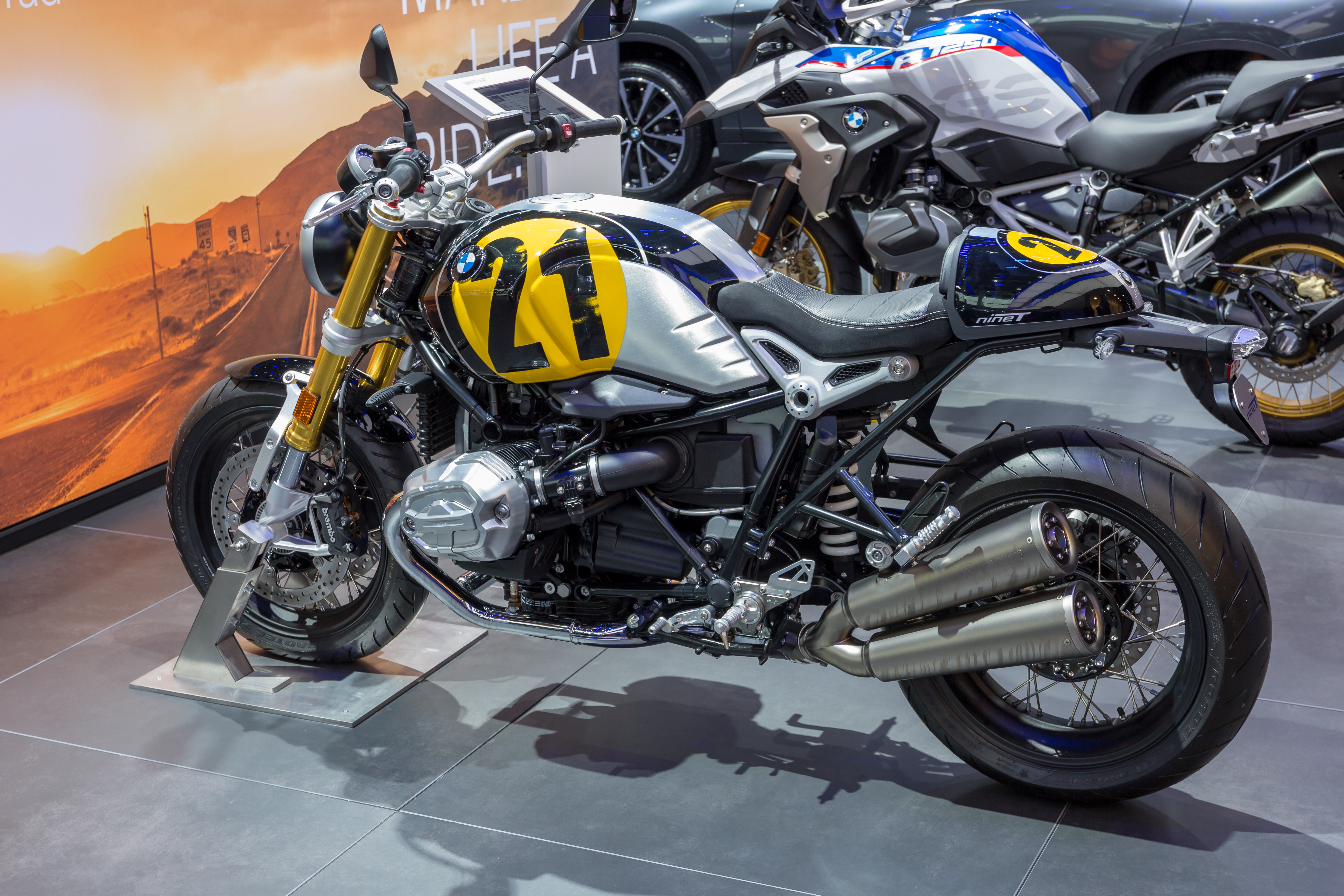 BMW R nineT, Mondial Paris Motor Show 2018